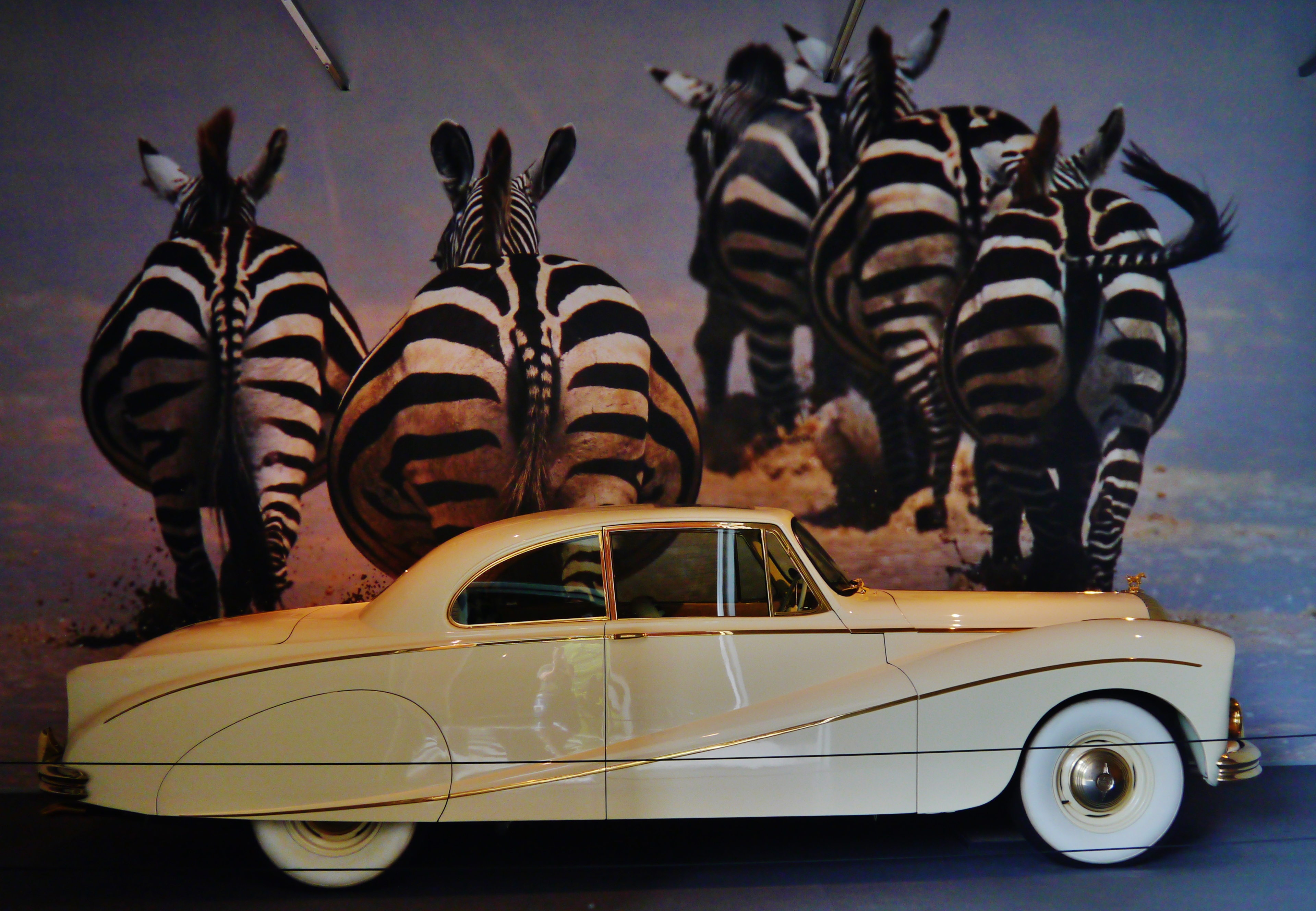 National Automobile Museum/Louwman Museum, The Hague, Province of South Holland, Netherlands